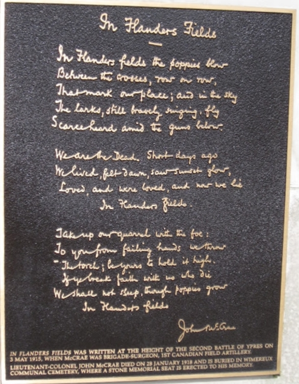 Plaque with the text of John McCrae's poem "In Flanders Fields" next to the Essex Farm Cemetery.